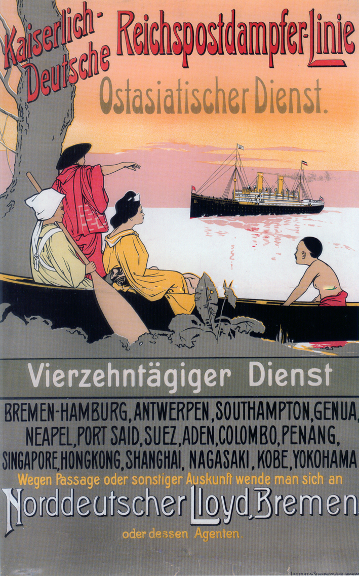 Advertising poster of the North German Lloyd (Norddeutscher Lloyd) from Bremen, Germany, for the east asia service of the Kaiserlich-Deutsche Reichspostdampfer-Linie (“Imperial german mail steamship line”). Unknown artist, 1898.